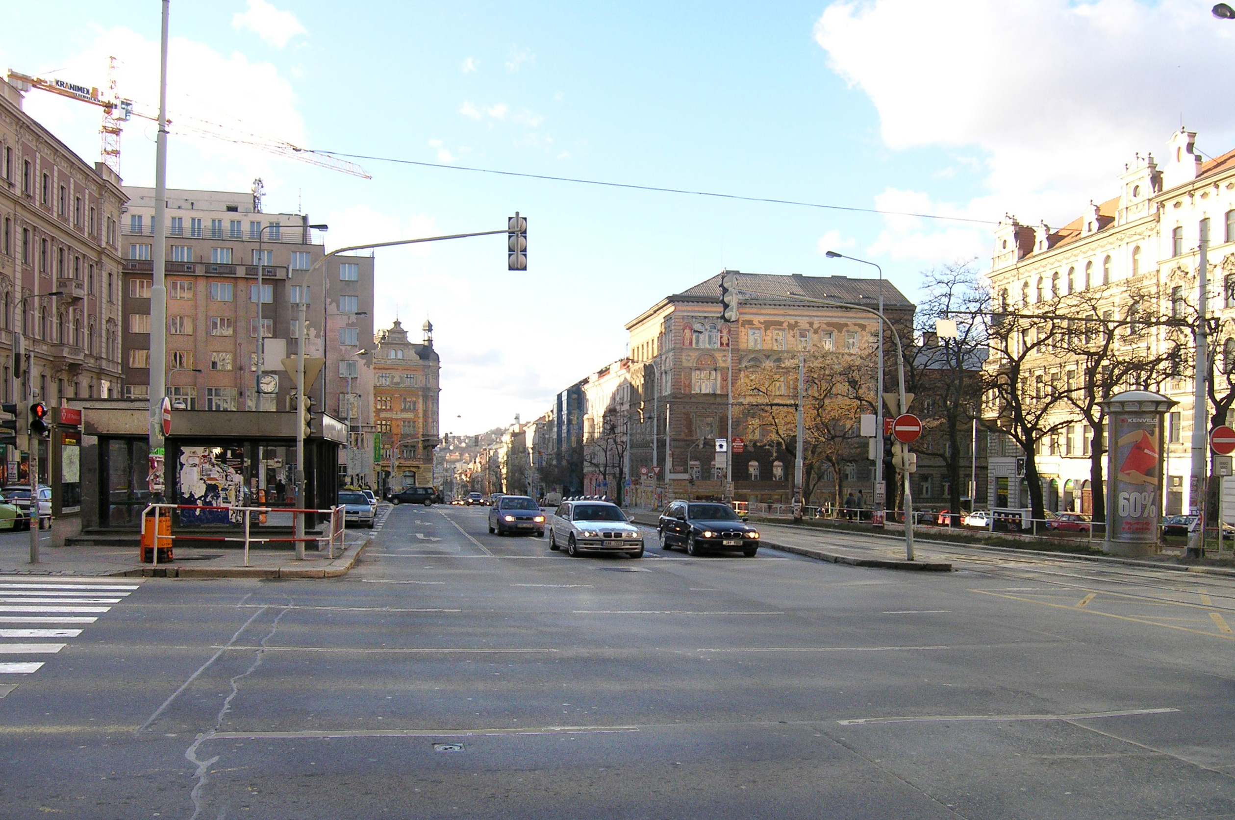 I. P. Pavlov square, Ječná street, Prague